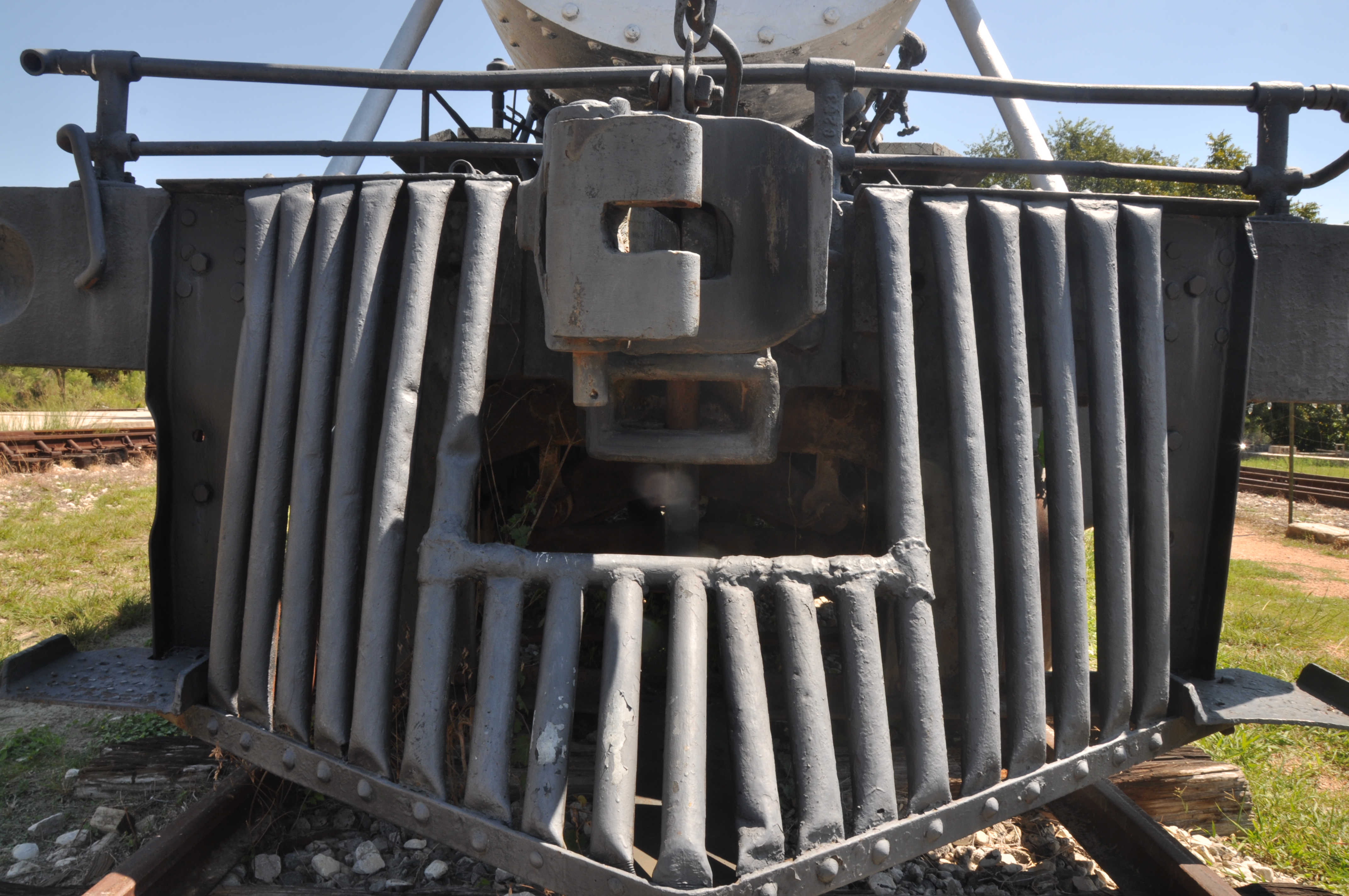 Historic Train at Texas Transportation museum in San Antonio, Texas